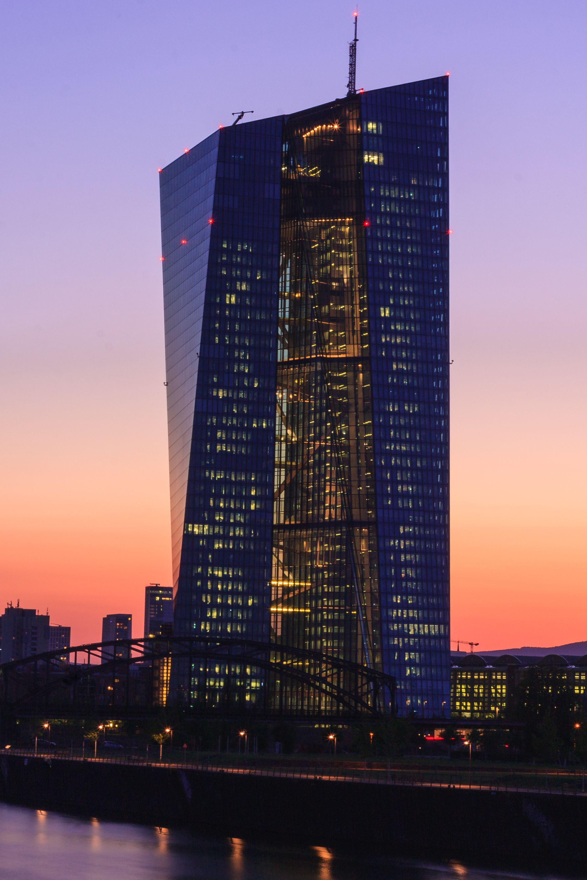 ECB in Frankfurt at Sunset